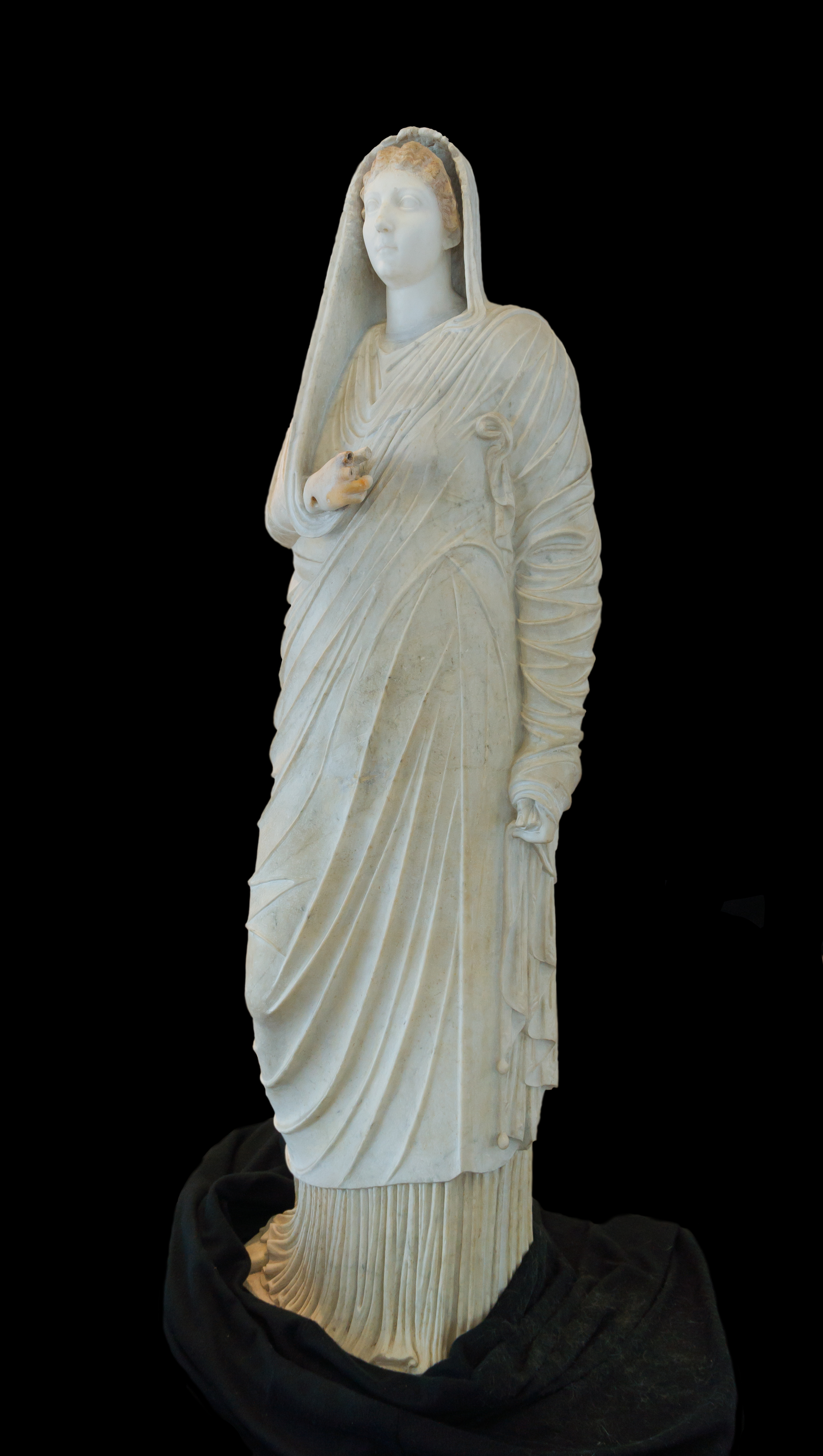 Roman statue in "tiberian style", Marble, 1st c. CE, found in Villa dei Misteri of Pompeii. The head (a diadem is missing) his a portrait of Livia, the wife of Augustus, and mother of Tiberius. Antiquarium of Boscoreale, Italy.